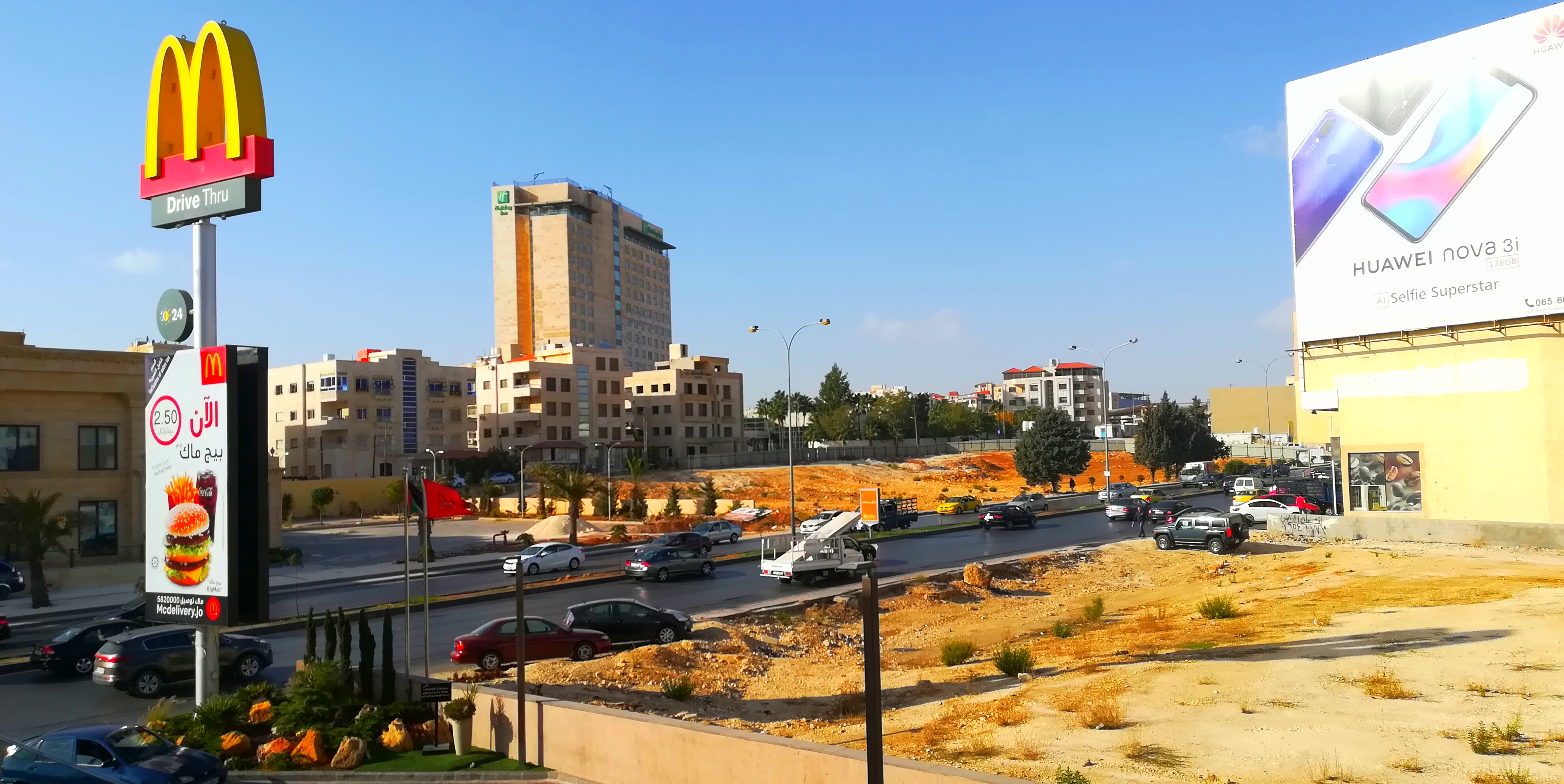 El-Madina El-monawara street in Amman, Jordan